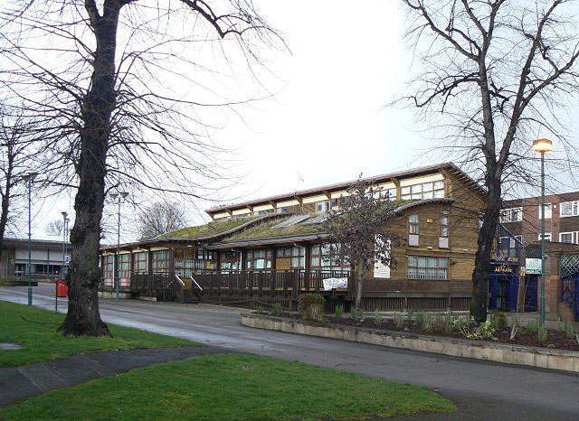 The Chase Centre Community Centre for St Anns. A modern building - note the deliberately vegetated roof.